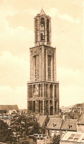 Utrecht Dom Tower before restauration